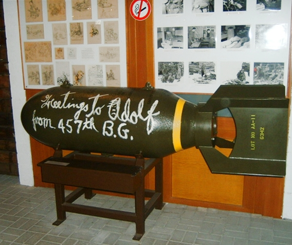 Bombe (US), 2. Weltkrieg, im National Museum of Military History in Diekirch in Luxembourg (Luxembourg)